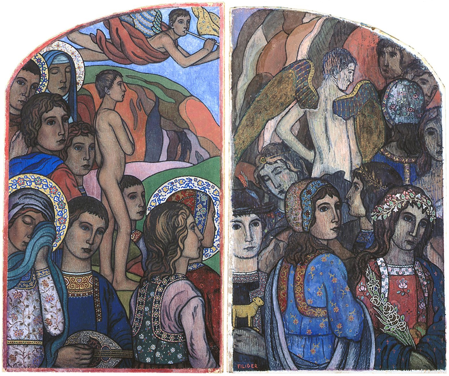 The last judgement